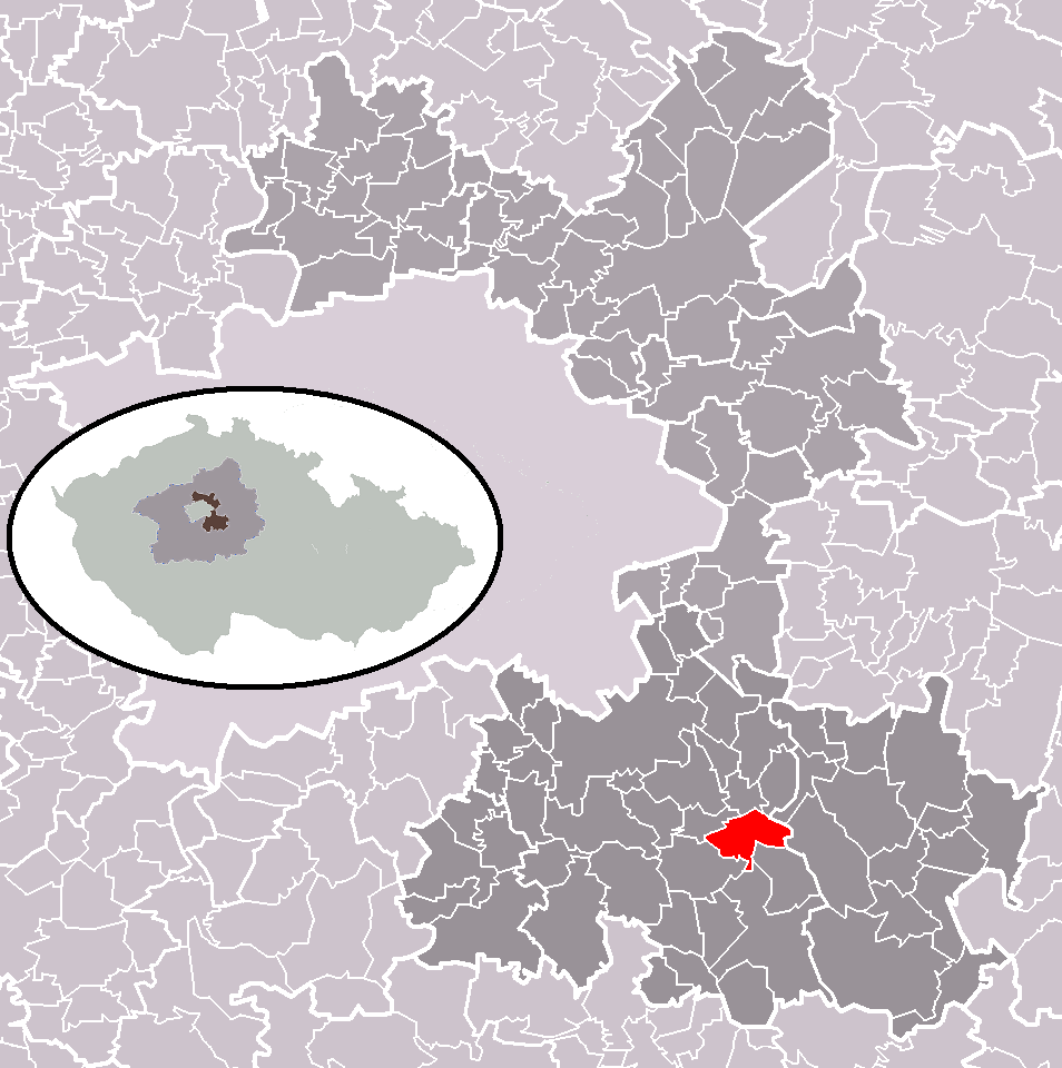 Location of Struhařov municipality within Prague-East District and administrative area of Říčany as a Municipality with Extended Competence.